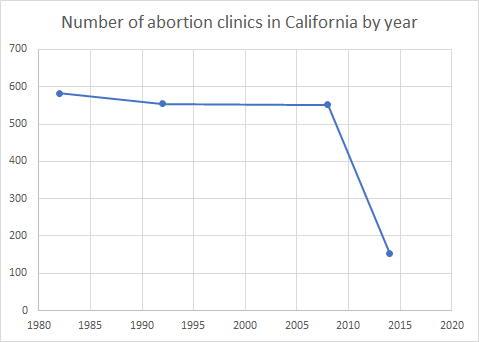 Number of abortion clinics in California by year. Created using data linked on .